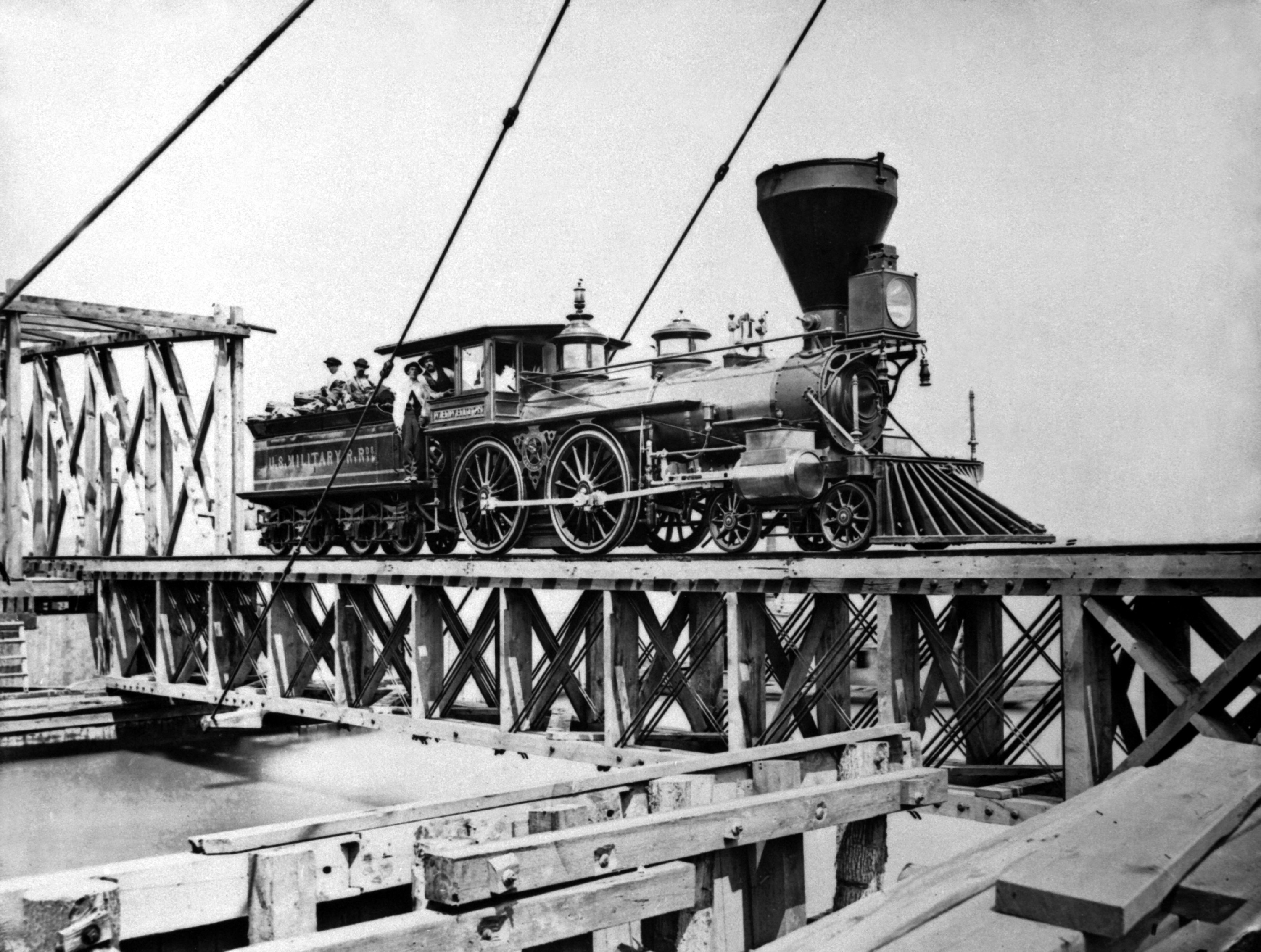 4-4-0 American type U.S. Military Railroad engine "W.H. Whiton." Mathew Brady Collection (Army).